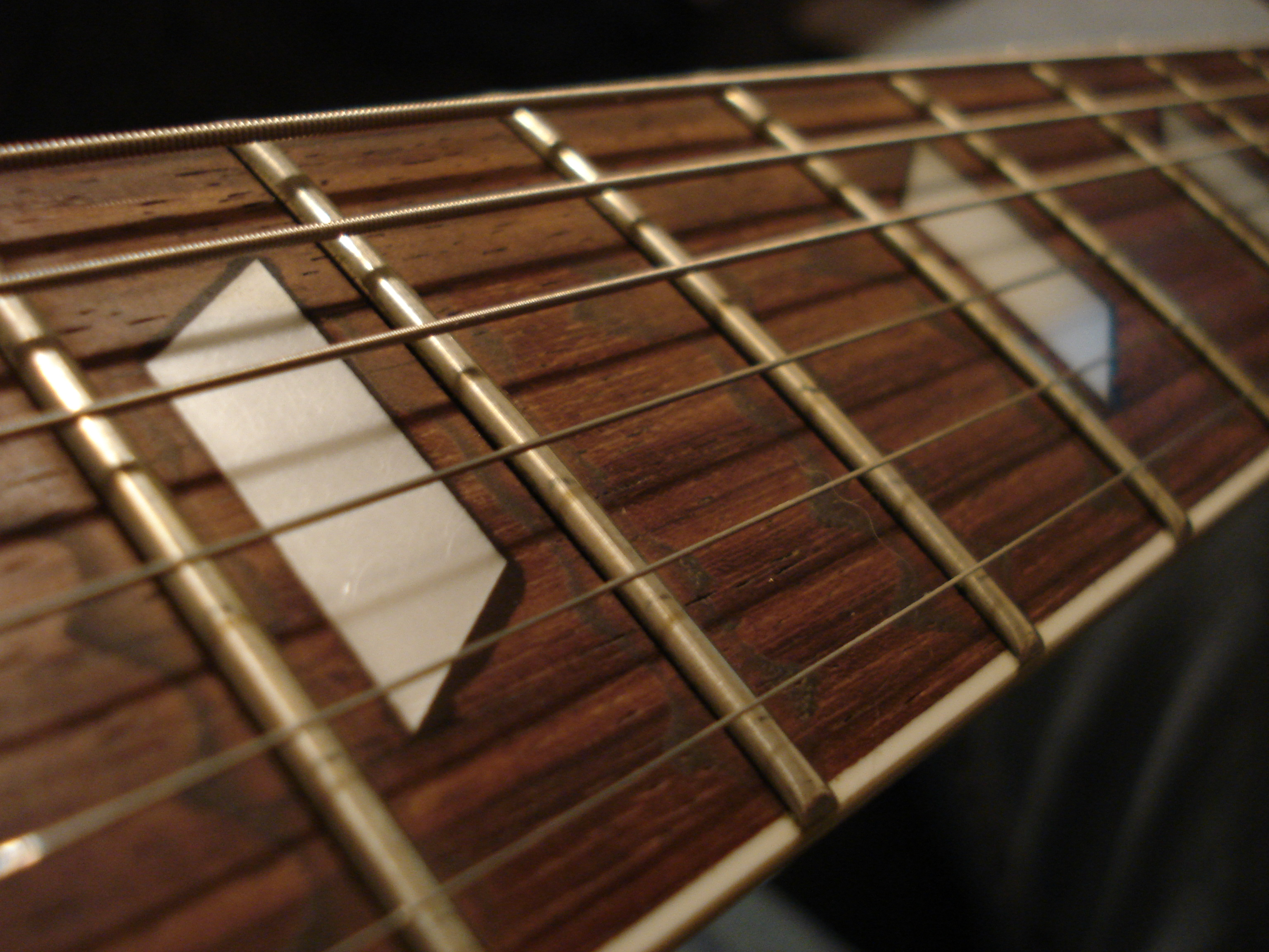 Fretboard with parallelogram inlays